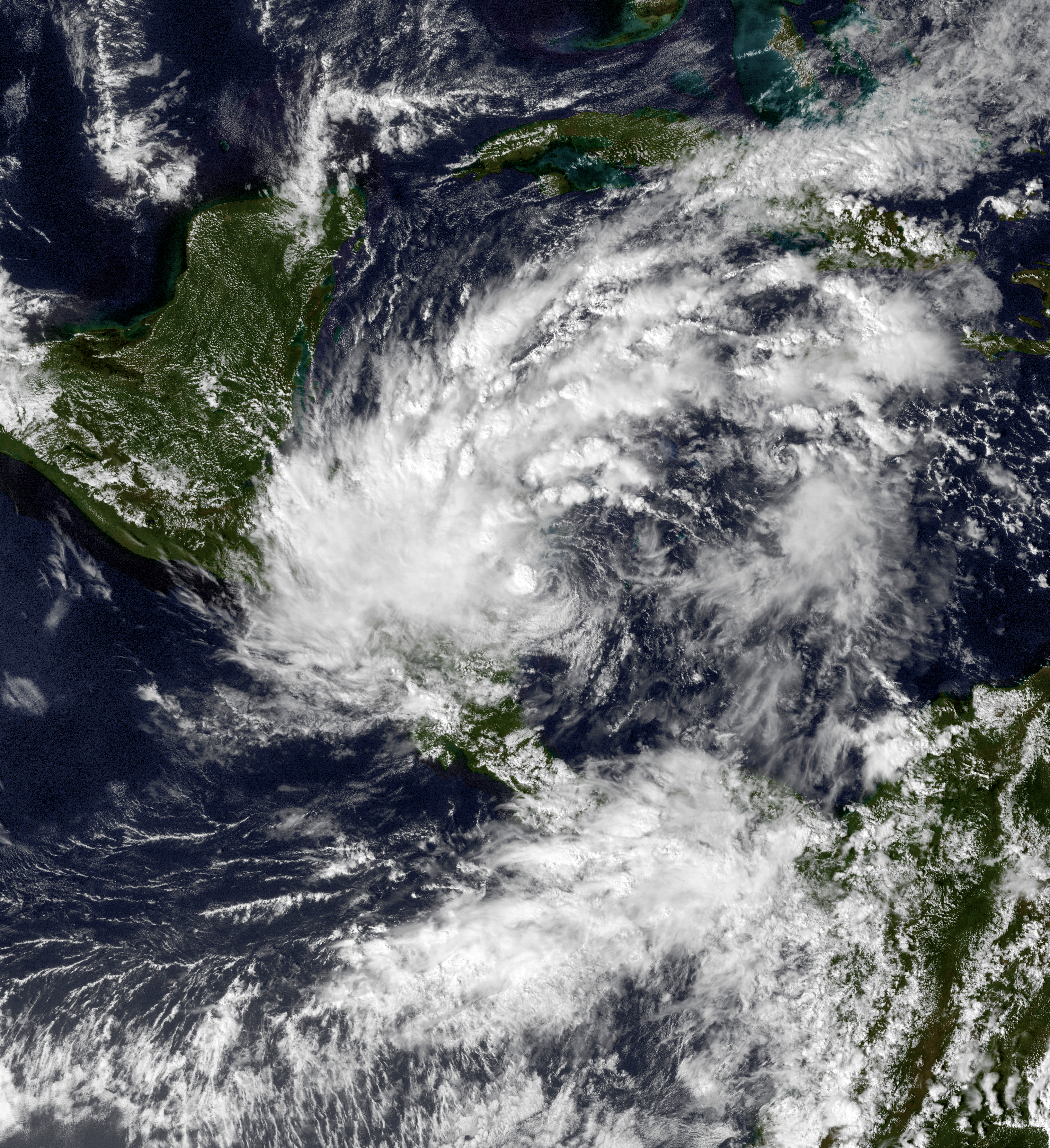 Tropical Storm Katrina on October 29, 1999